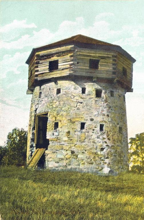 Print (photomechanical), The Old Fort, Cornwall, ON, about 1910, Coloured ink on paper mounted on card - Photolithography - 13.5 x 8.8 cm